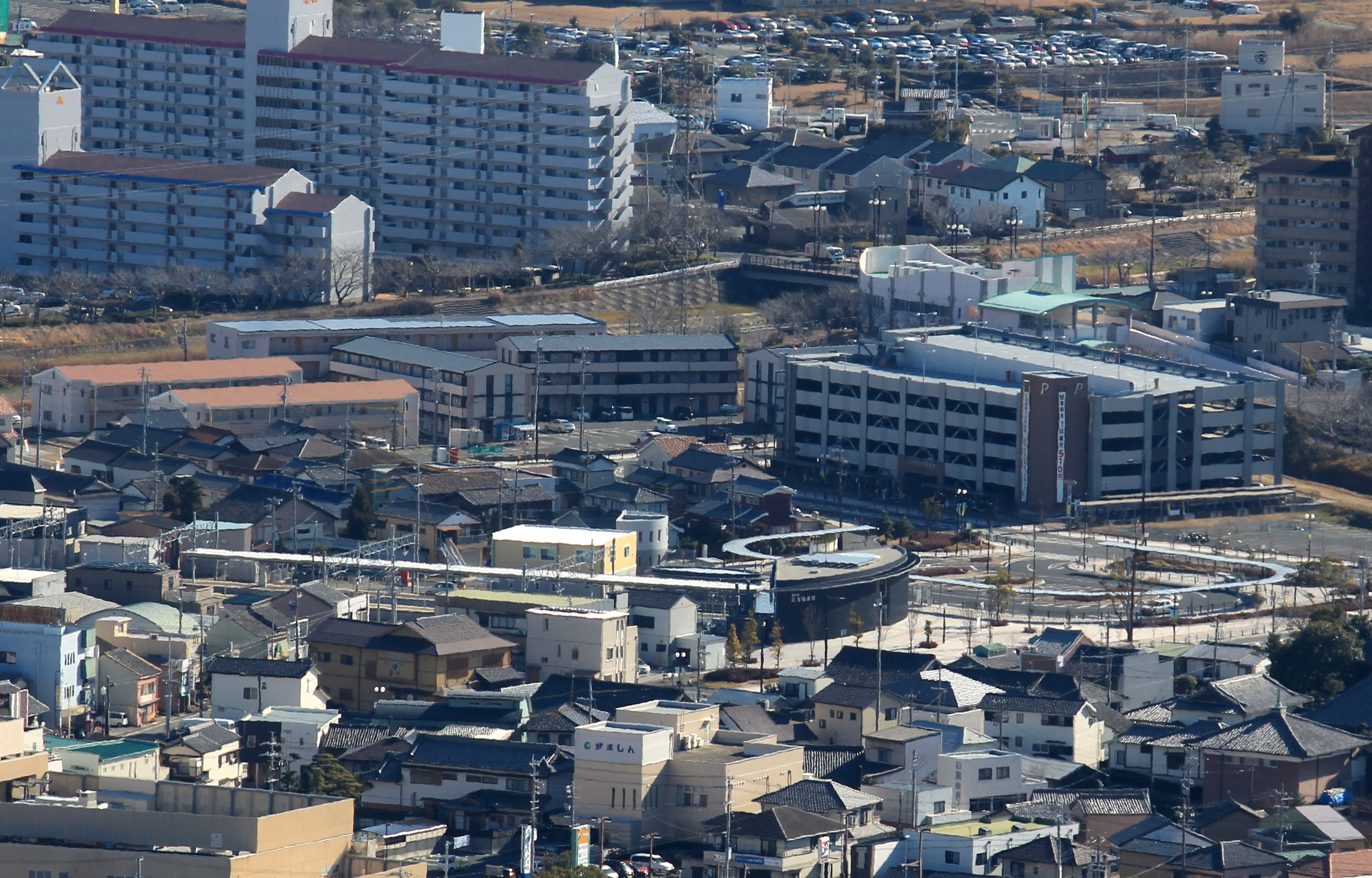 Mikawa Tahara Station seen from Mount Zao in Tahara, Aichi prefecture, Japan.